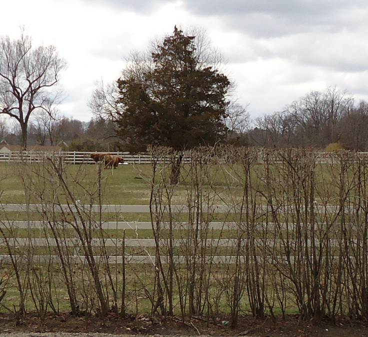 Estate in New Jersey has cows and qualifies as a working "farm", allowing a tax break to property owners in Rumson, New Jersey.